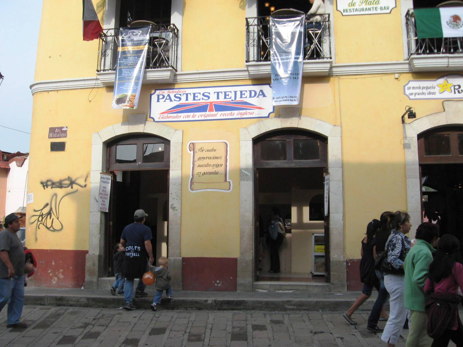 Pastes Tejada in Real del Monte, Hidalgo State, Mexico